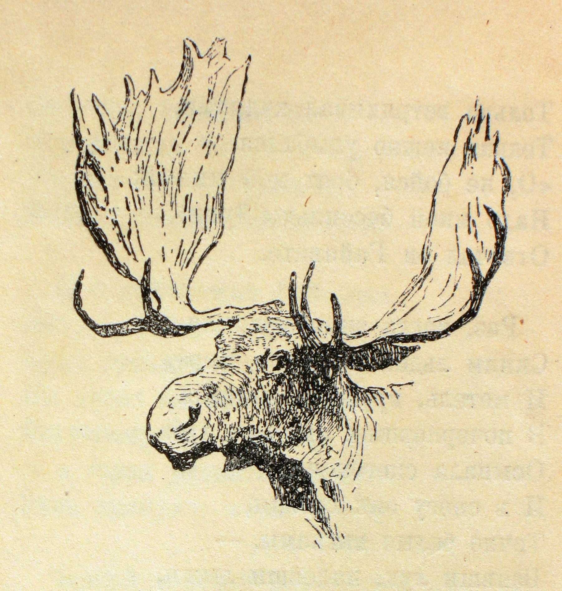 Henry Wadsworth Longfellow, The Song of Hiawatha, Moscow, 1931. Published by OGIZ.